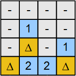 an example to tentaizu 4x4 puzzle - solved